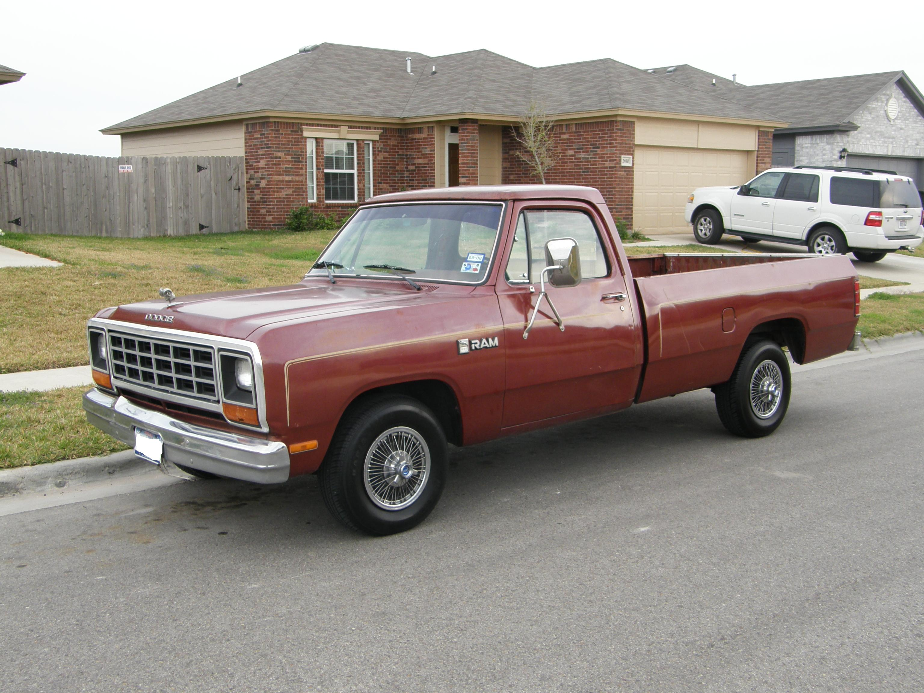 A 1985 Dodge Ram D150 5.2L V8.